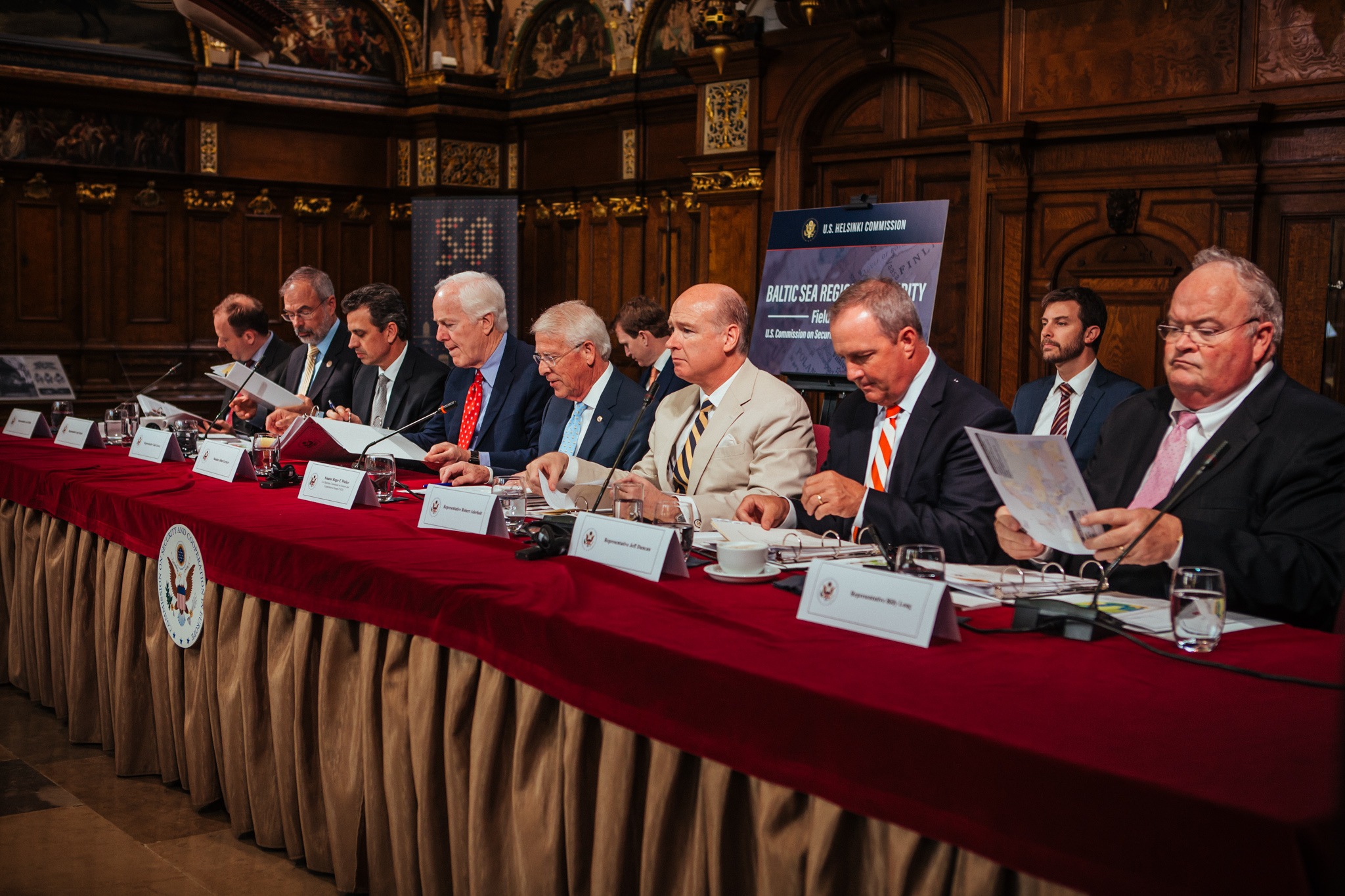 Representative Lee Zeldin; Representative Andy Harris; Representative Tom Graves; Senator John Cornyn; Co-Chairman Senator Roger Wicker; Representative Robert Aderholt; Representative Jeff Duncan; Representative Billy Long U.S. Helsinki Commission